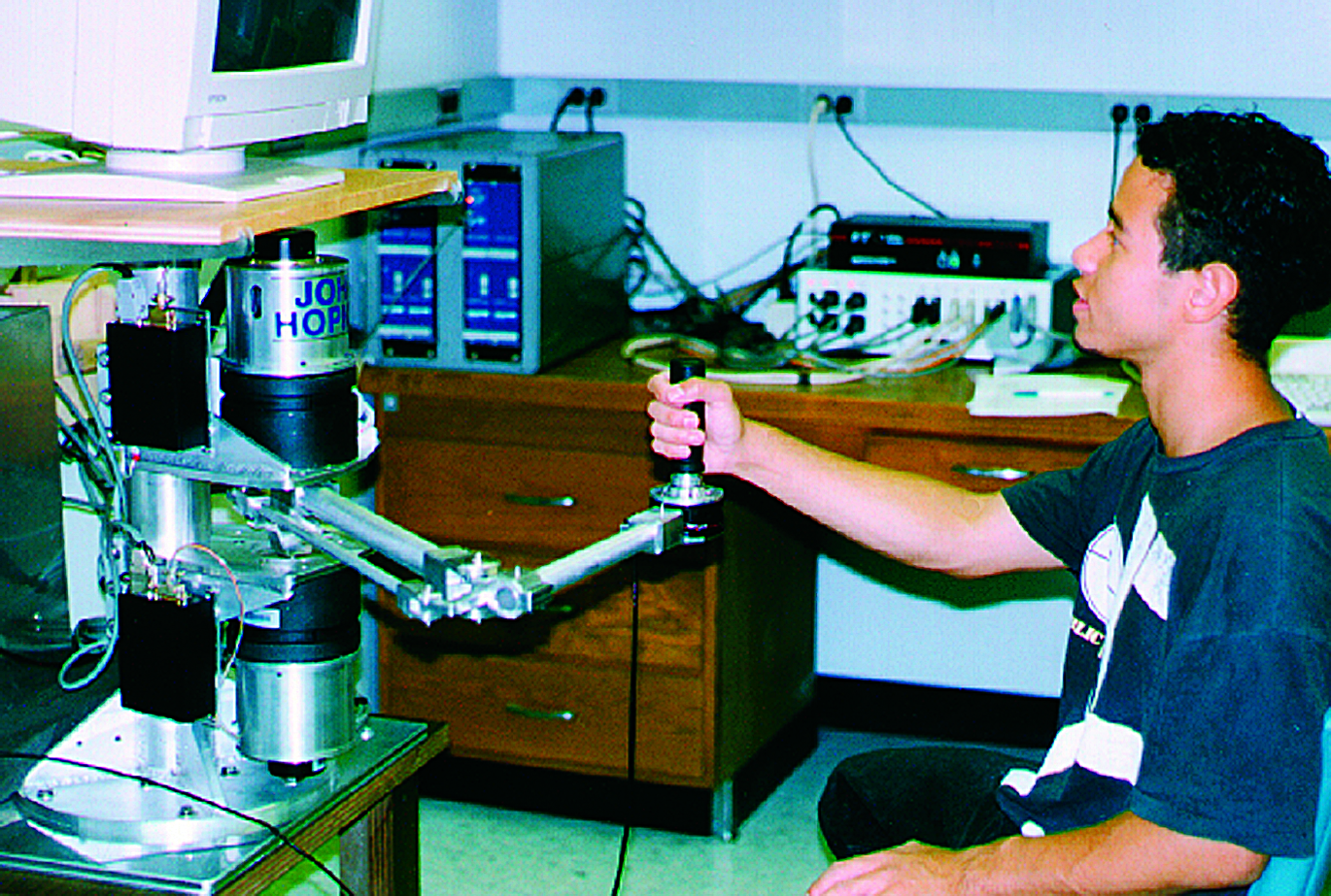 A Psychophysics Experiment on the Control of Reaching Movements The subject is instructed to make arm movements while holding a manipulandum, which can exert forces on his arm during the movement. The ability to adapt to such forces can give insight into the neural organization underlying movement. (Photograph courtesy of Reza Shadmehr.)